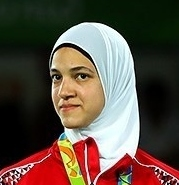 Taekwondo at the 2016 Summer Olympics – Women's 57 kg. Hedaya Malak (Egypt), bronze medal.